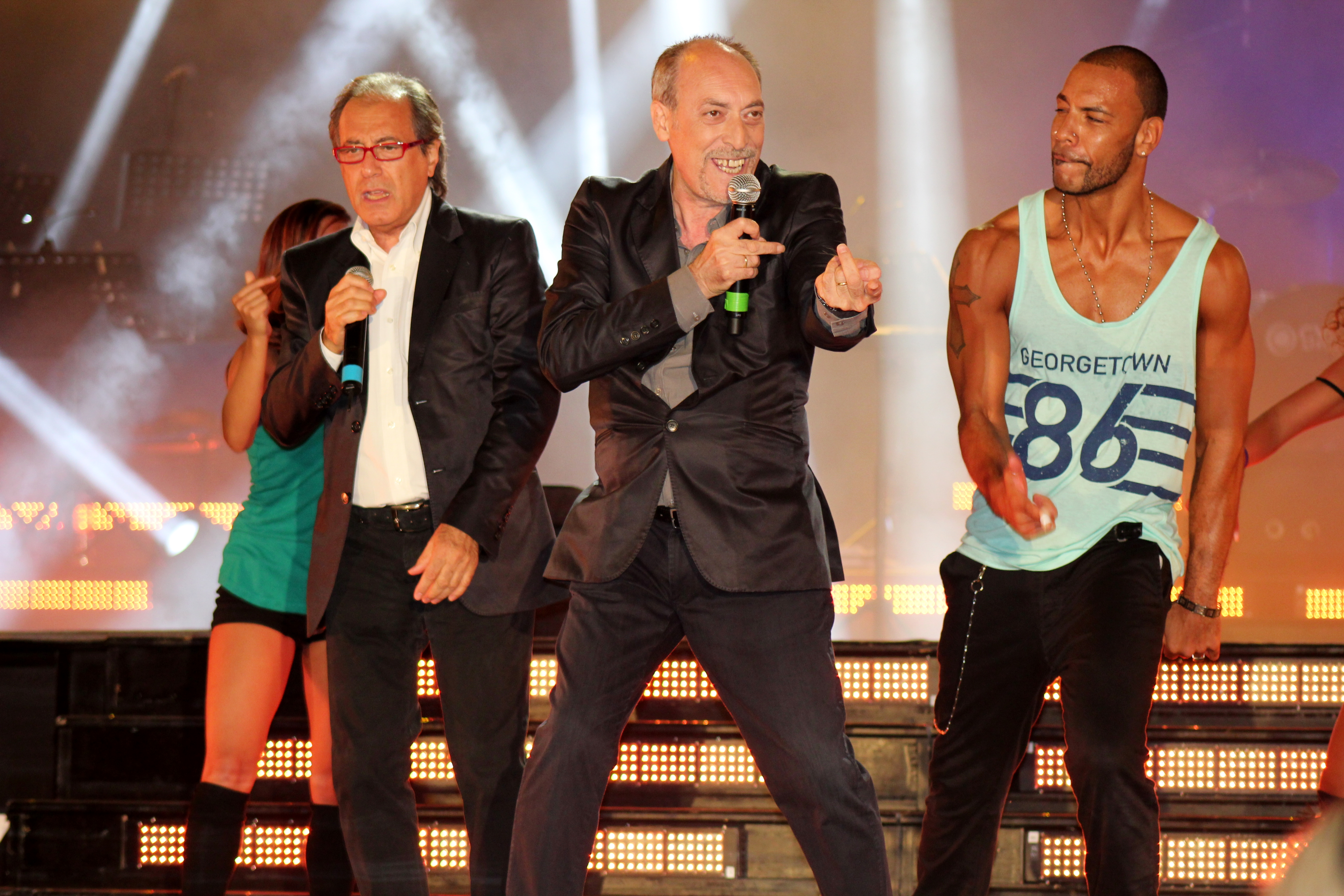 LA BIONDA & ETIENNE performing at the Festival Show in 2013